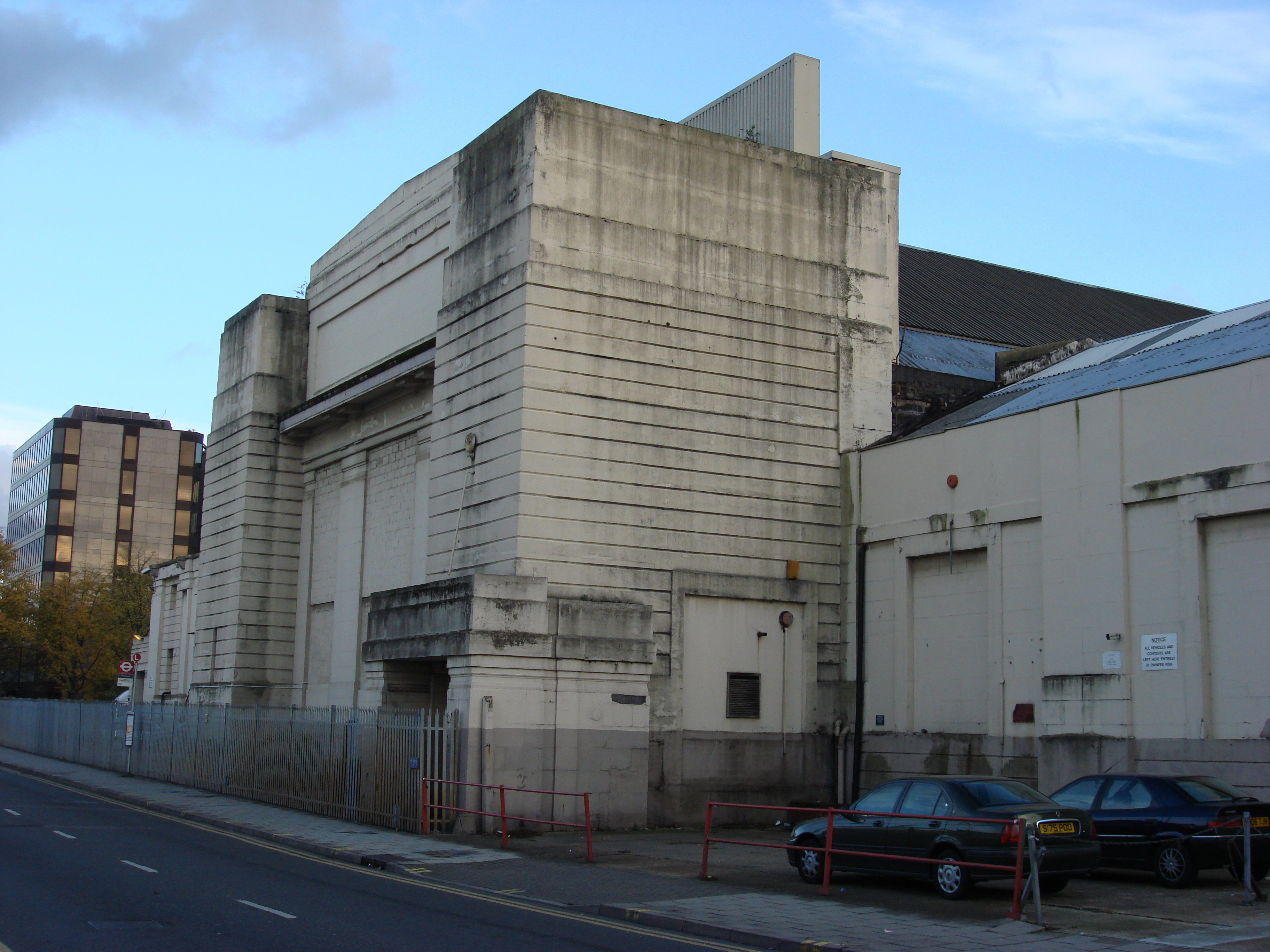 Palace of Industry building from The British Empire Exhibition 1924 now used as warehousing ,Wembley, London, UK